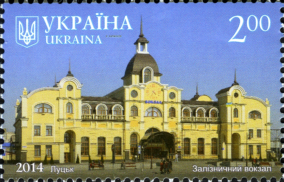 Stamps of Ukraine, 2014